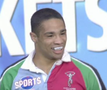 Picture of Will Sharp against the Leeds Rhinos